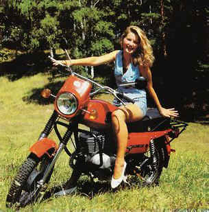 A picture of Voshod3m